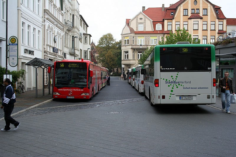 Bus station in town of Herford, District of Herford, North Rhine-Westphalia, Germany.